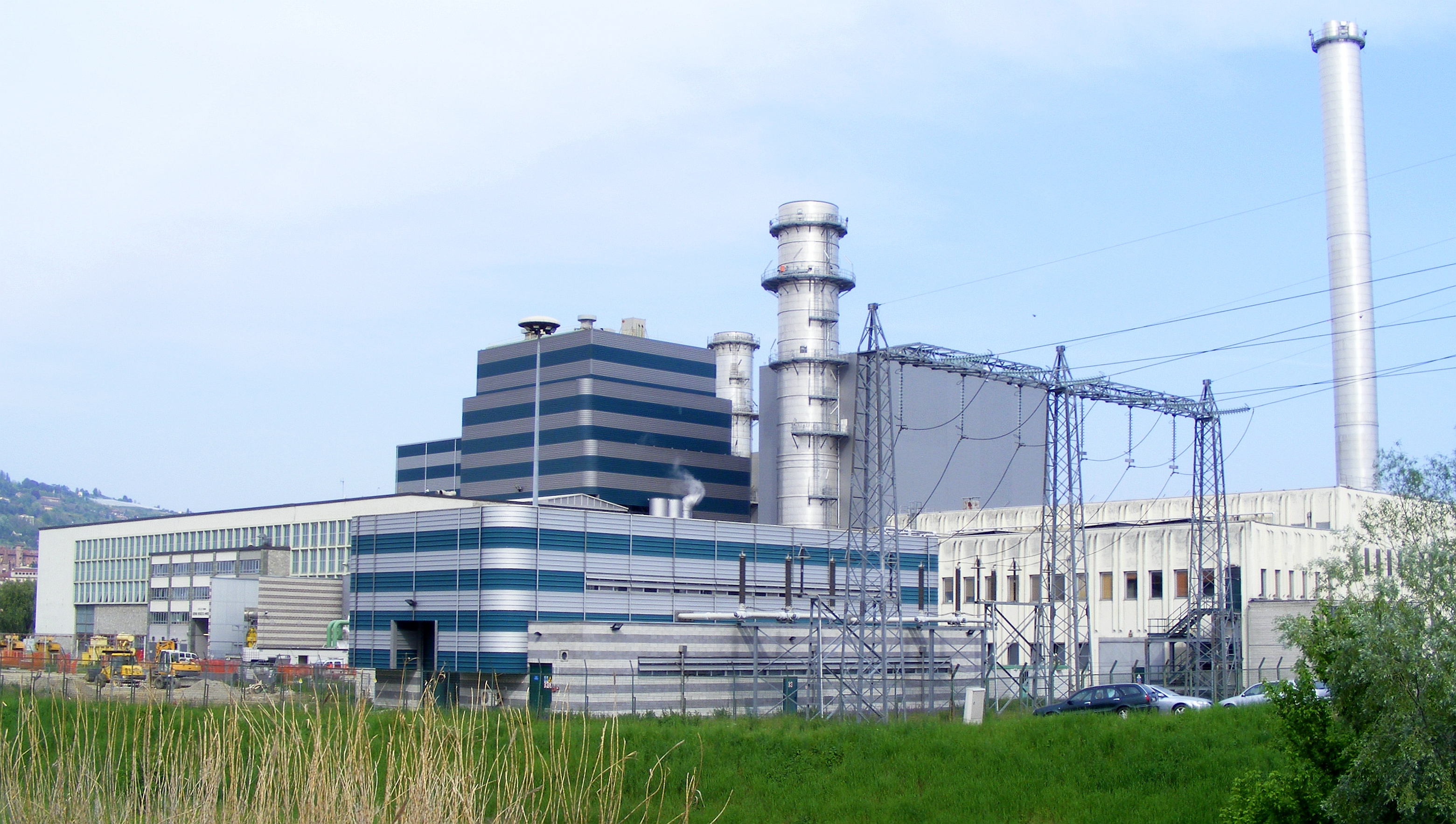 Electric power-plant IREN (Moncalieri, TO, Italy)